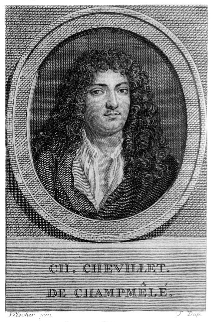 Portrait of Charles Chevillet de Champmeslé (1642-1701), French actor and playwright